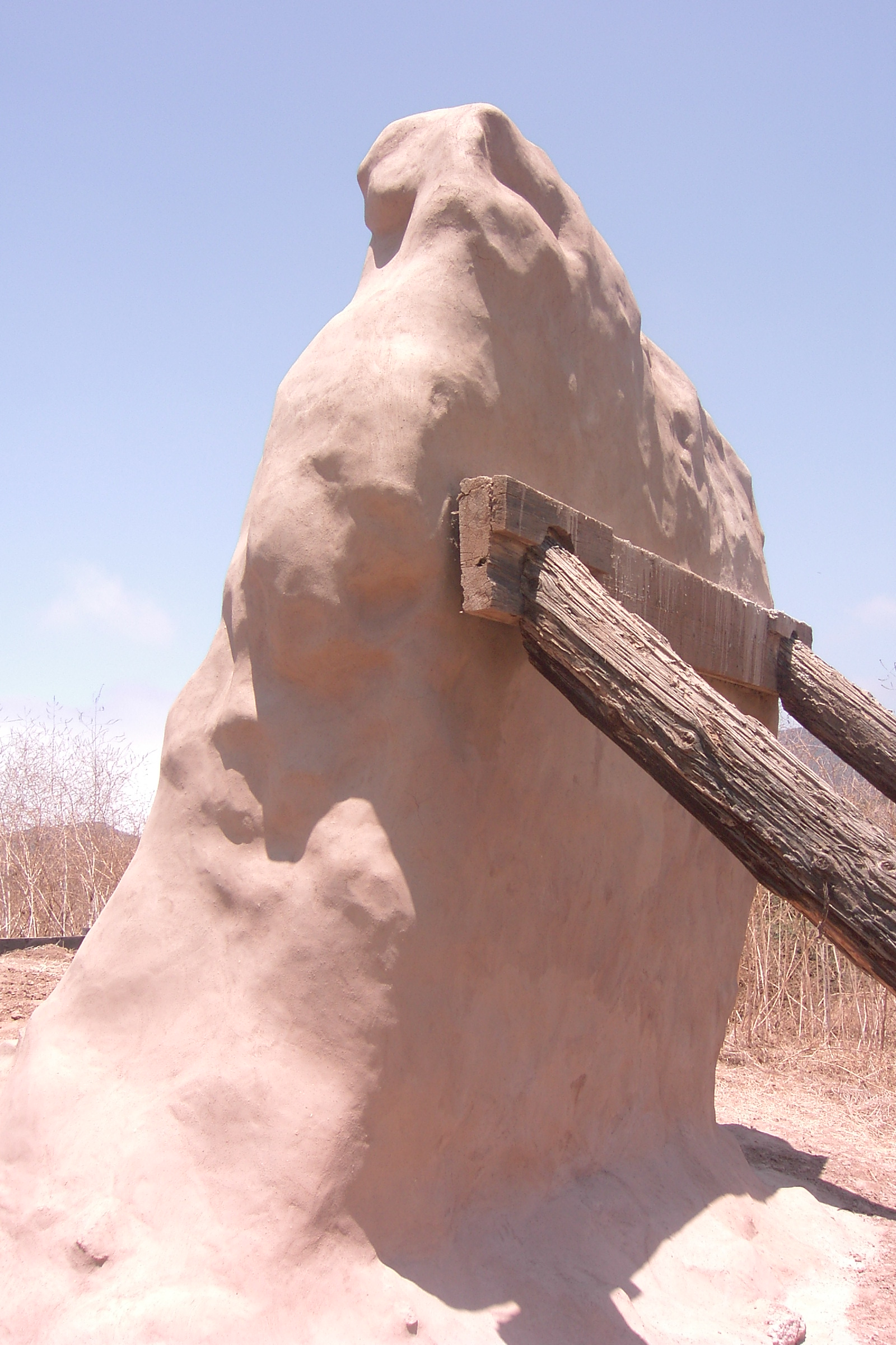 Photo of a wall of San Miguel De la Frontera Mission taken 09/07/2005